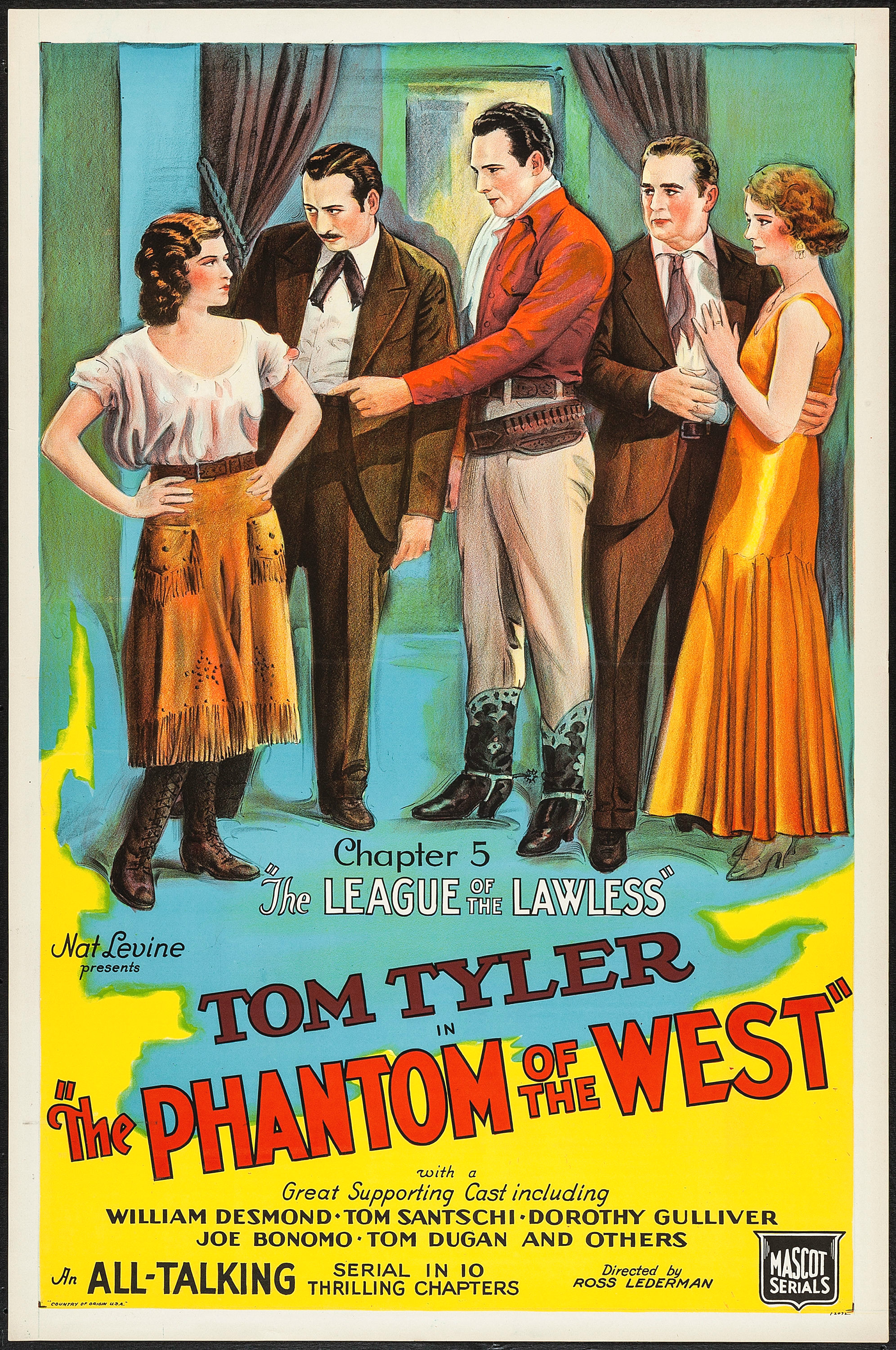 Poster for the 1931 film The Phantom of the West.